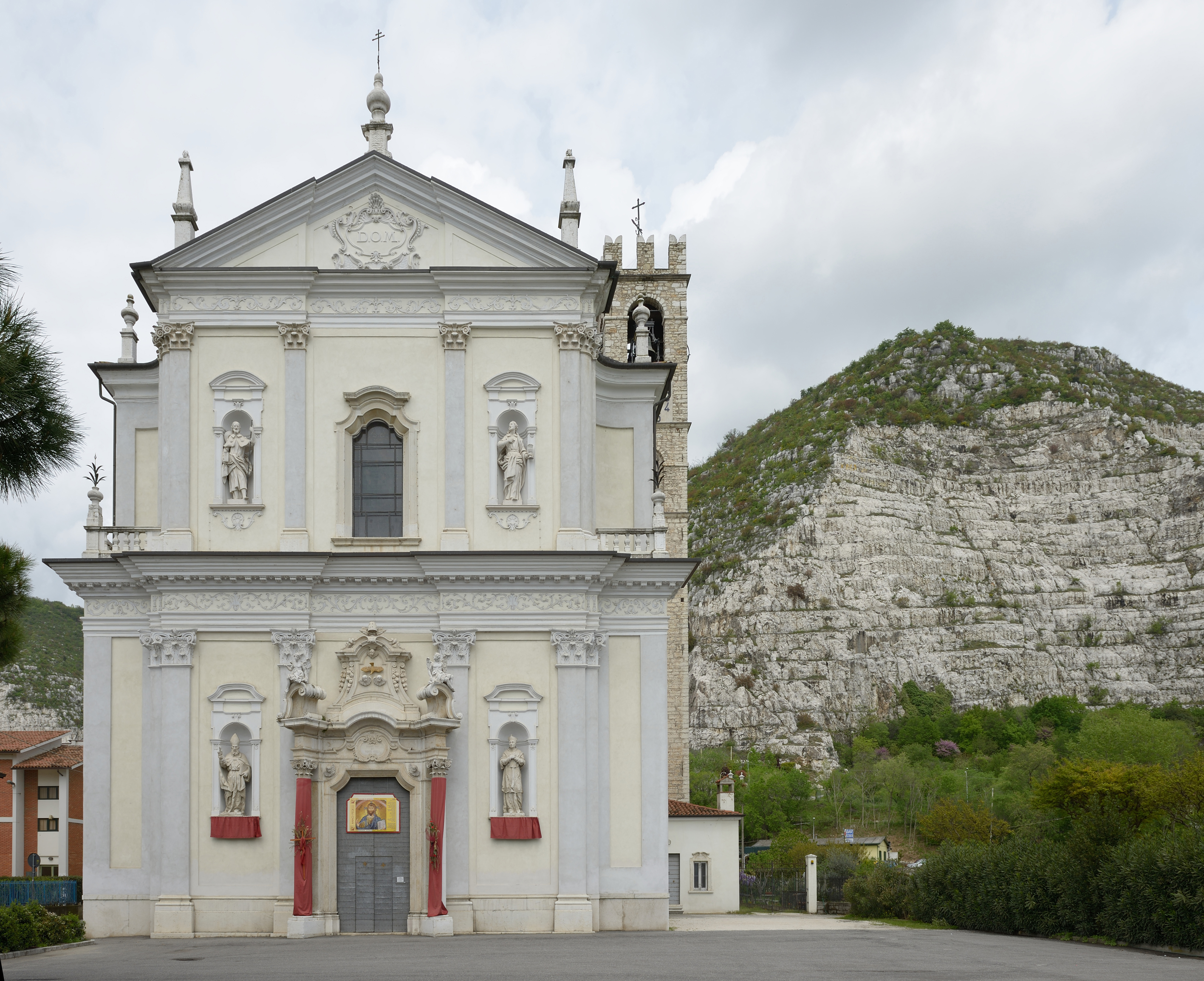 Facade of the church of the Saints Peter and Paul in Virle province of Brescia. On the right an abandoned marble quarry